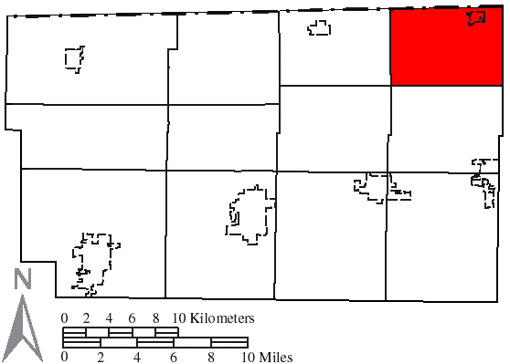 Made by the US Census and modified by myself